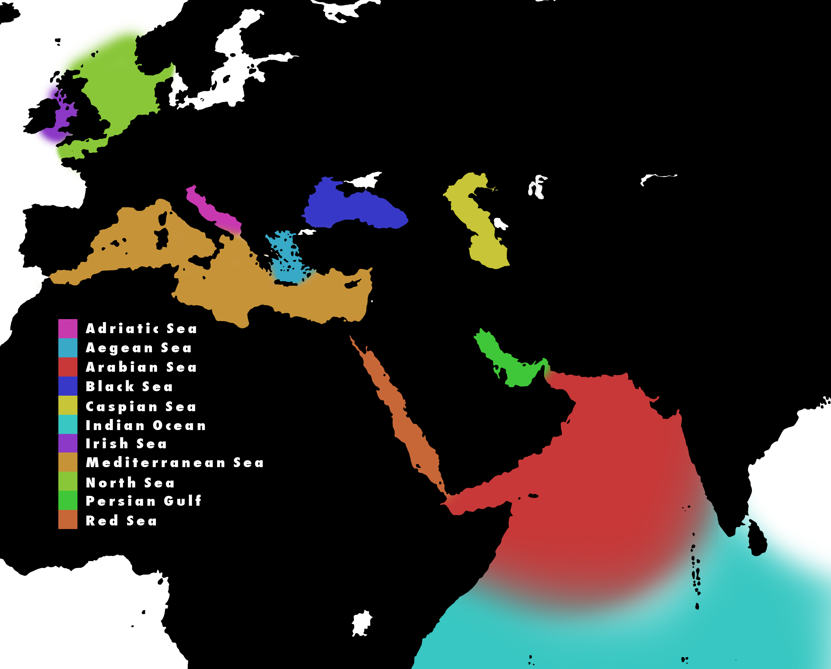 Map of the eleven seas referred to in various medieval definitions of the Seven Seas.